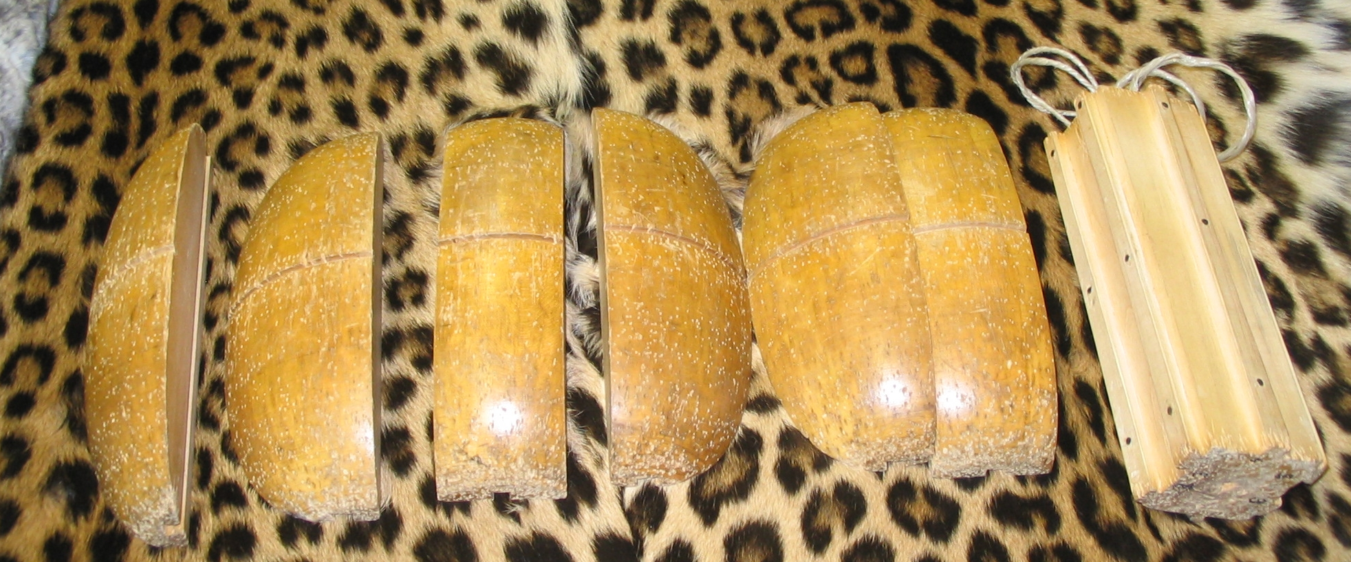 For fur muffs